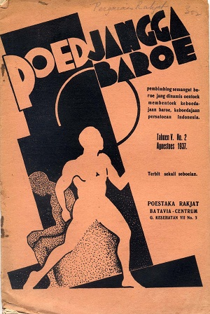 This is the front cover art for the magazine Poedjangga Baroe.